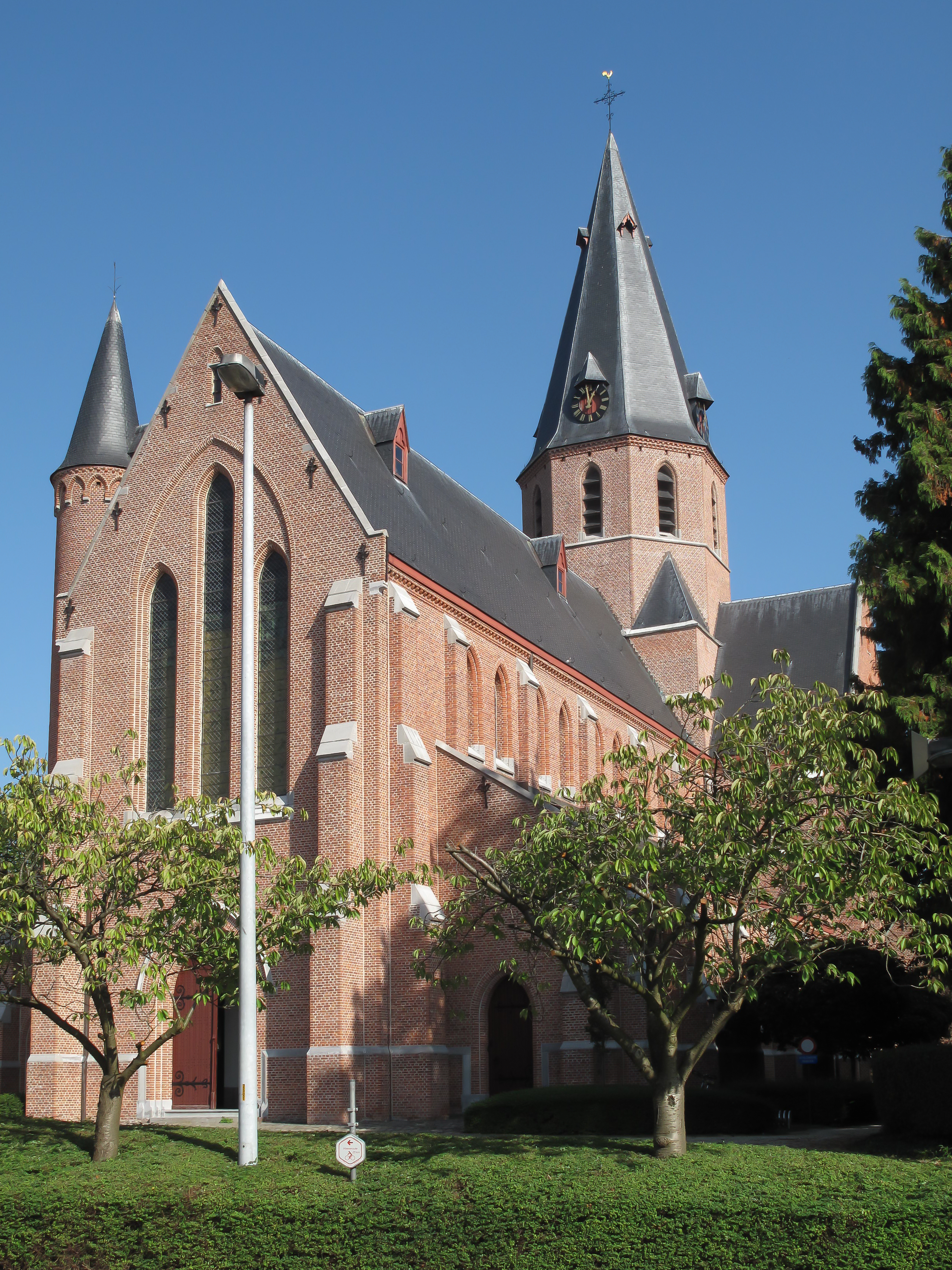 Ruiter, church